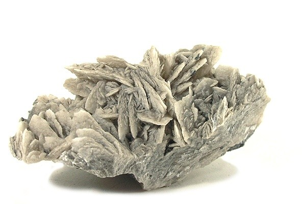 Barytocalcite Locality: Blagill Mine, Nent Valley, Alston Moor District, North Pennines, North and Western Region (Cumberland), Cumbria, England, UK (Locality at ) Truly fine specimens of Barytocalcite , barium calcium carbonate, are extremely rare and I am told all are older than at least several decades (if not over a hundred years old). This is a very showy, large specimen with unusually large and isolated crystals, shooting up in every direction. It is actually, for a lustreless gray-white mineral, the most attractive example I have seen for sale. 6.5 x 3.3 x 2.5 cm